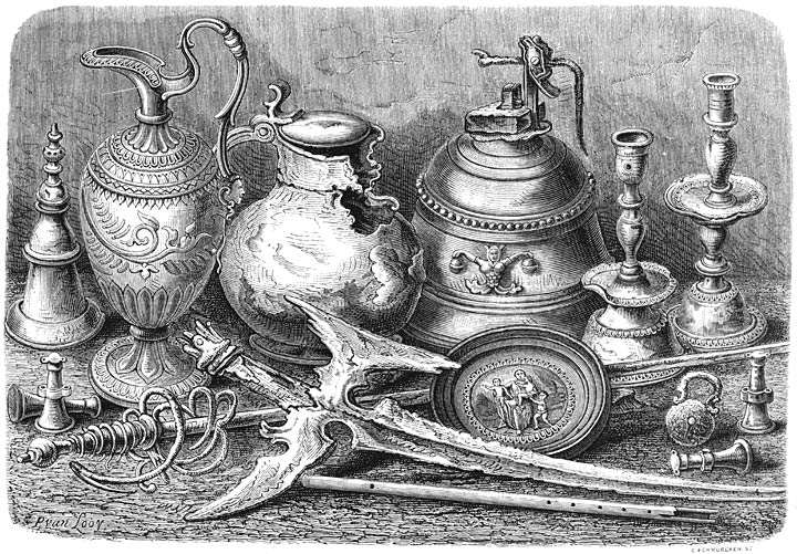 Illustration of artifacts collected by later expeditions to the wintering site of Willem Barents